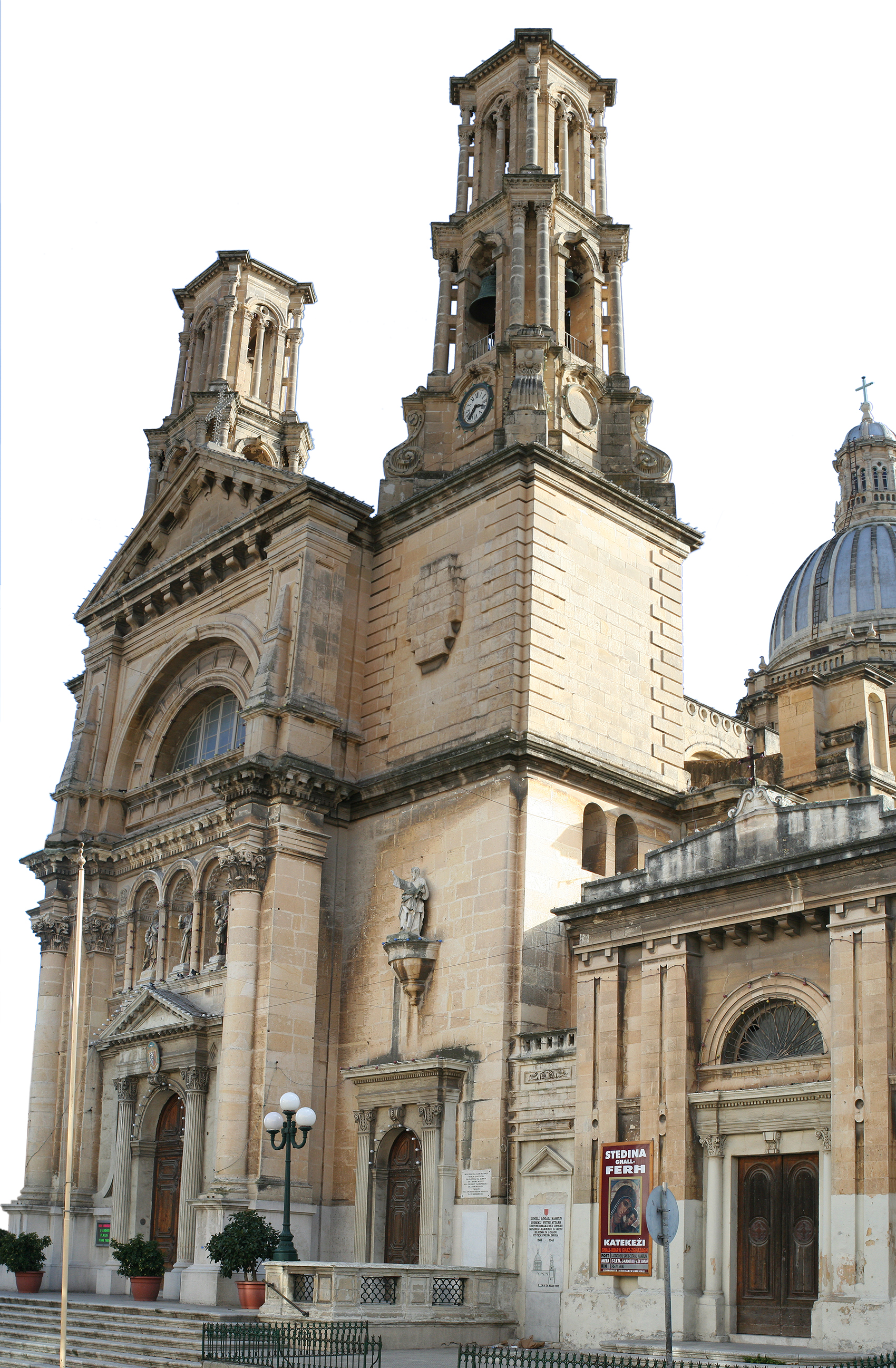 Malta, Hamrun, parish church Saint Gaetano (Gajtanu)